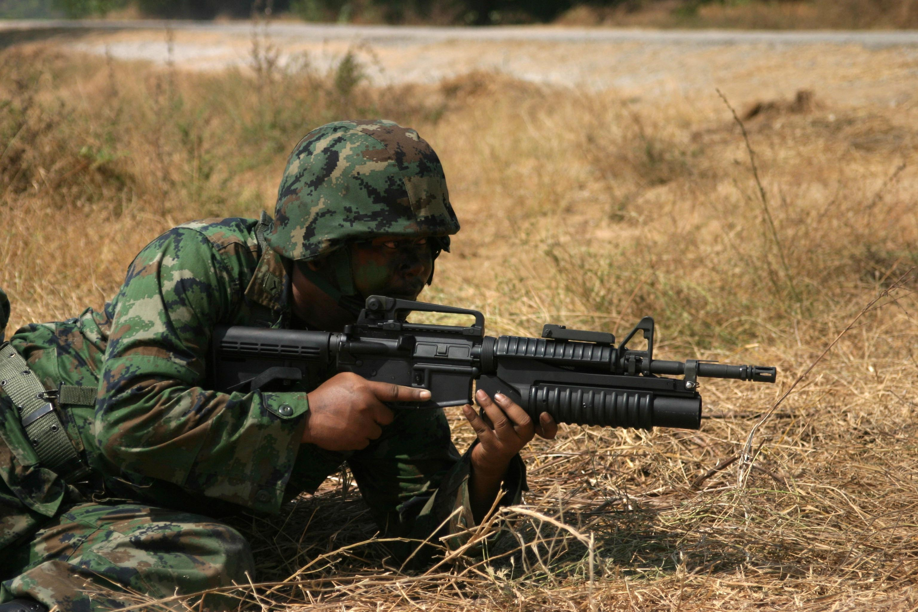 A Royal Thai Marine, along with U.S. infantry Marines with the Battalion Landing Team, 2nd Battalion, 5th Marine Regiment, 31st Marine Expeditionary Unit, 3rd Marine Expeditionary Brigade Forward, III Marine Expeditionary Force, not shown, assault the beachhead in an amphibious assault raid here Feb. 10, 2011, during Exercise Cobra Gold 2011. Cobra Gold 2011 is a regularly scheduled multinational training exercise designed to improve partner nation interoperability.